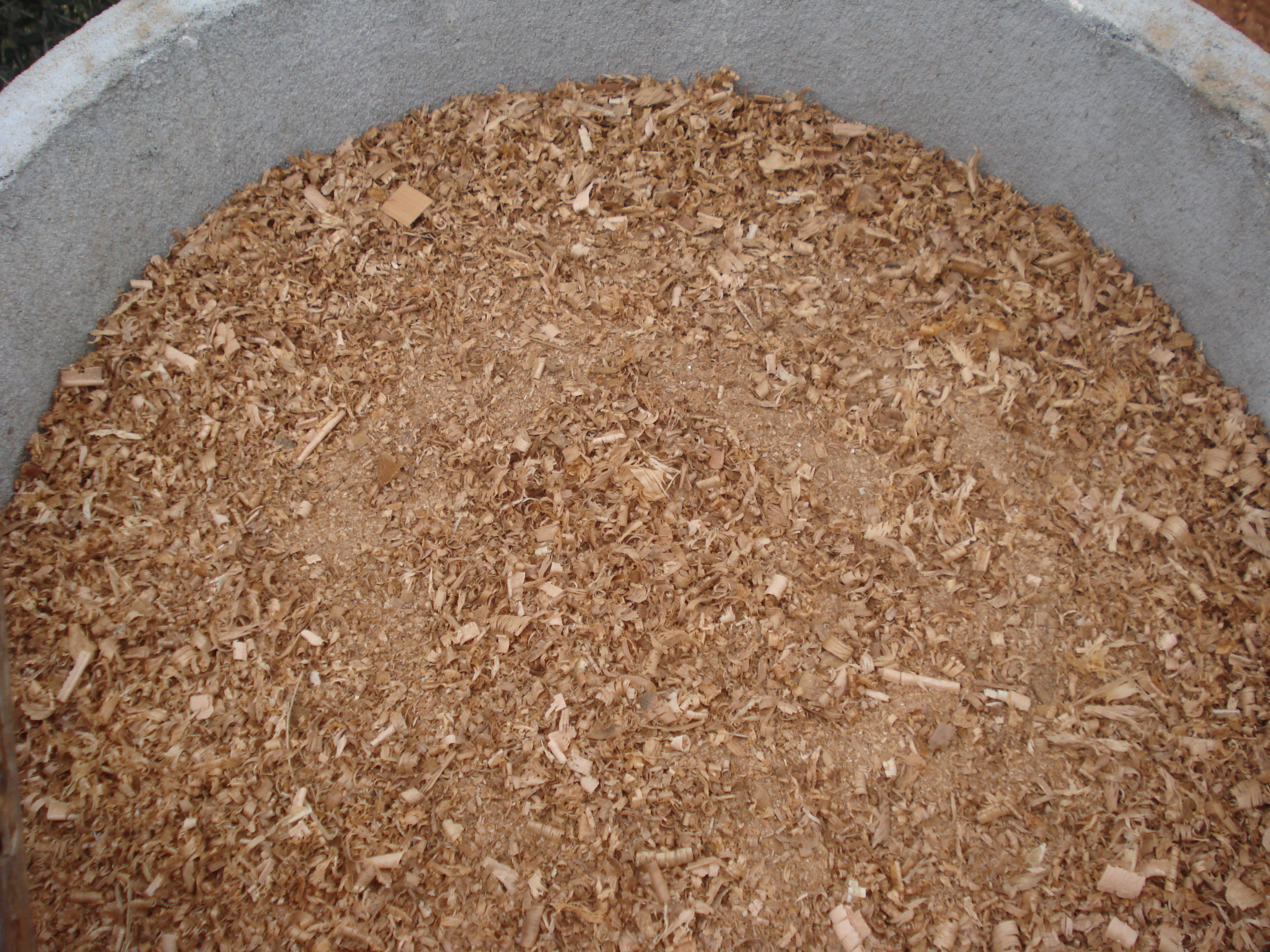 Sawdust used as filter packing.